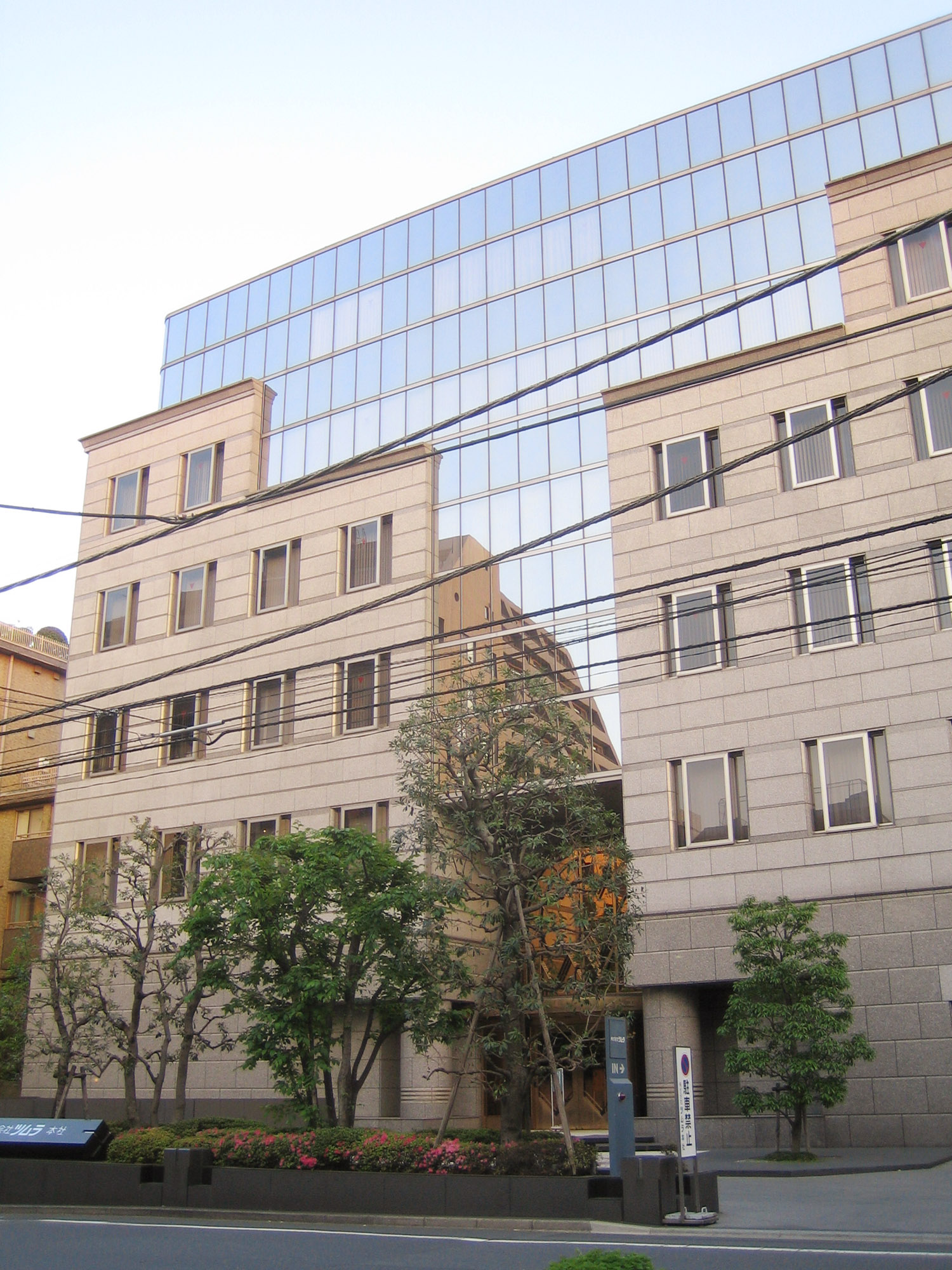 Tsumura & Co. (株式会社ツムラ), in Chiyoda, Tokyo, Japan